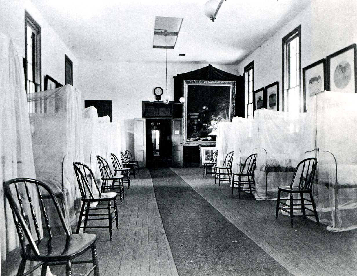 "The Gross Clinic" by Thomas Eakins on display in Ward One of the U.S. Army Post Hospital, 1876 Centennial Exposition in Philadelphia.